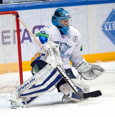 Vitali Yeremeyev during Amur Khabarovsk - Barys Astana game in 2011.